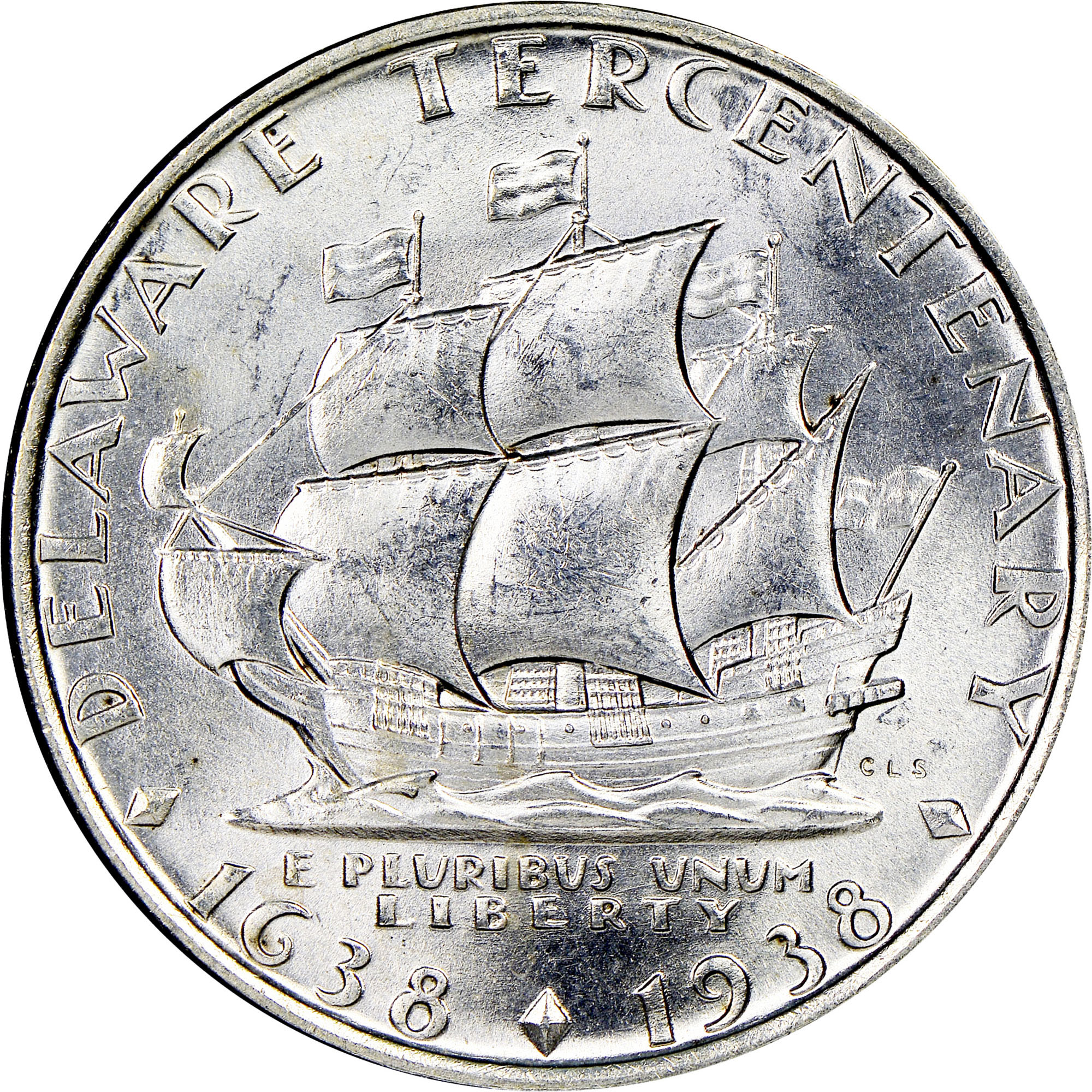 Reverse of a 1936 Delaware Swedish tercentenary commemorative half dollar.